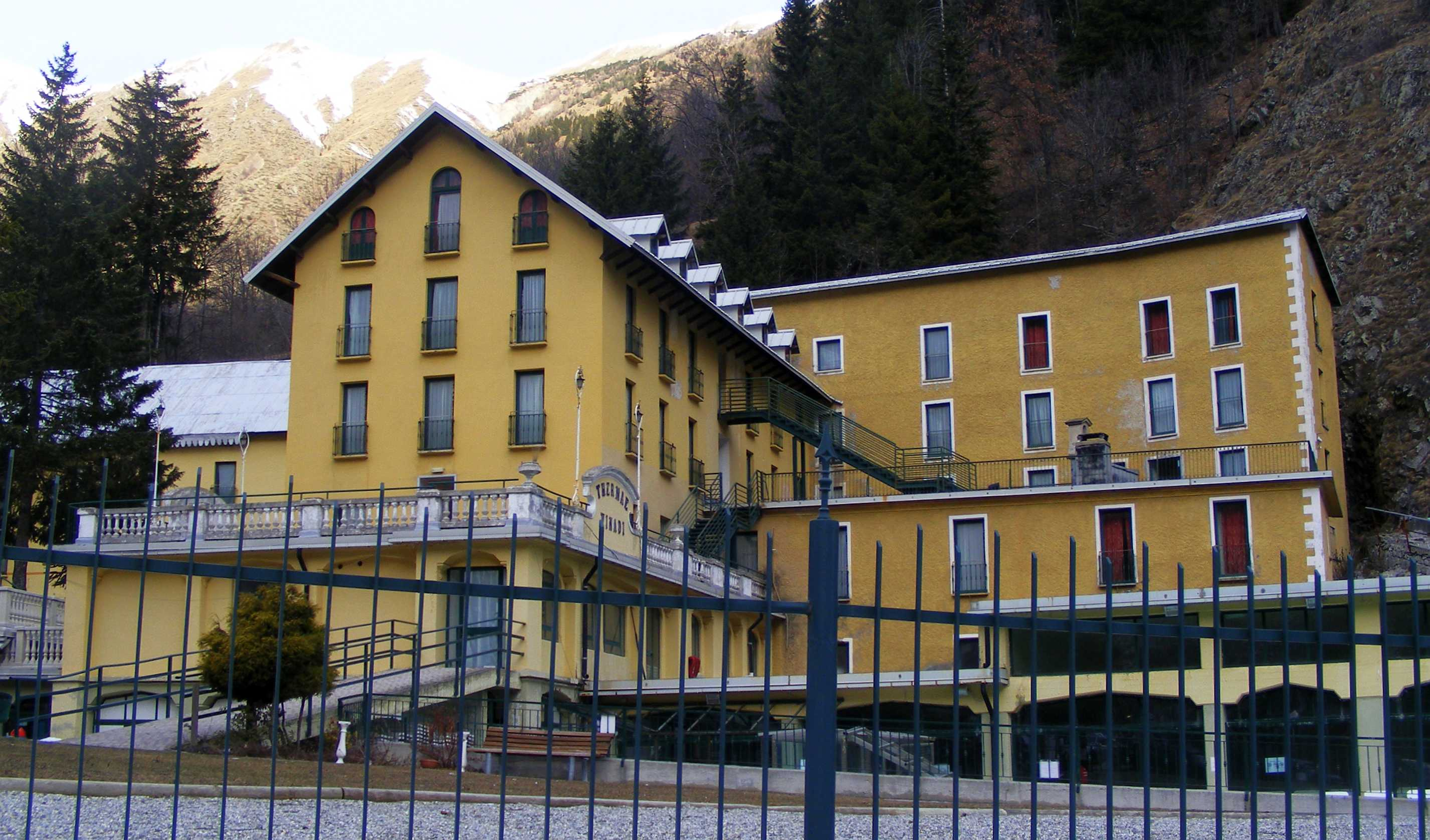 Bagni di Vinadio (Vinadio, CN): thermal baths